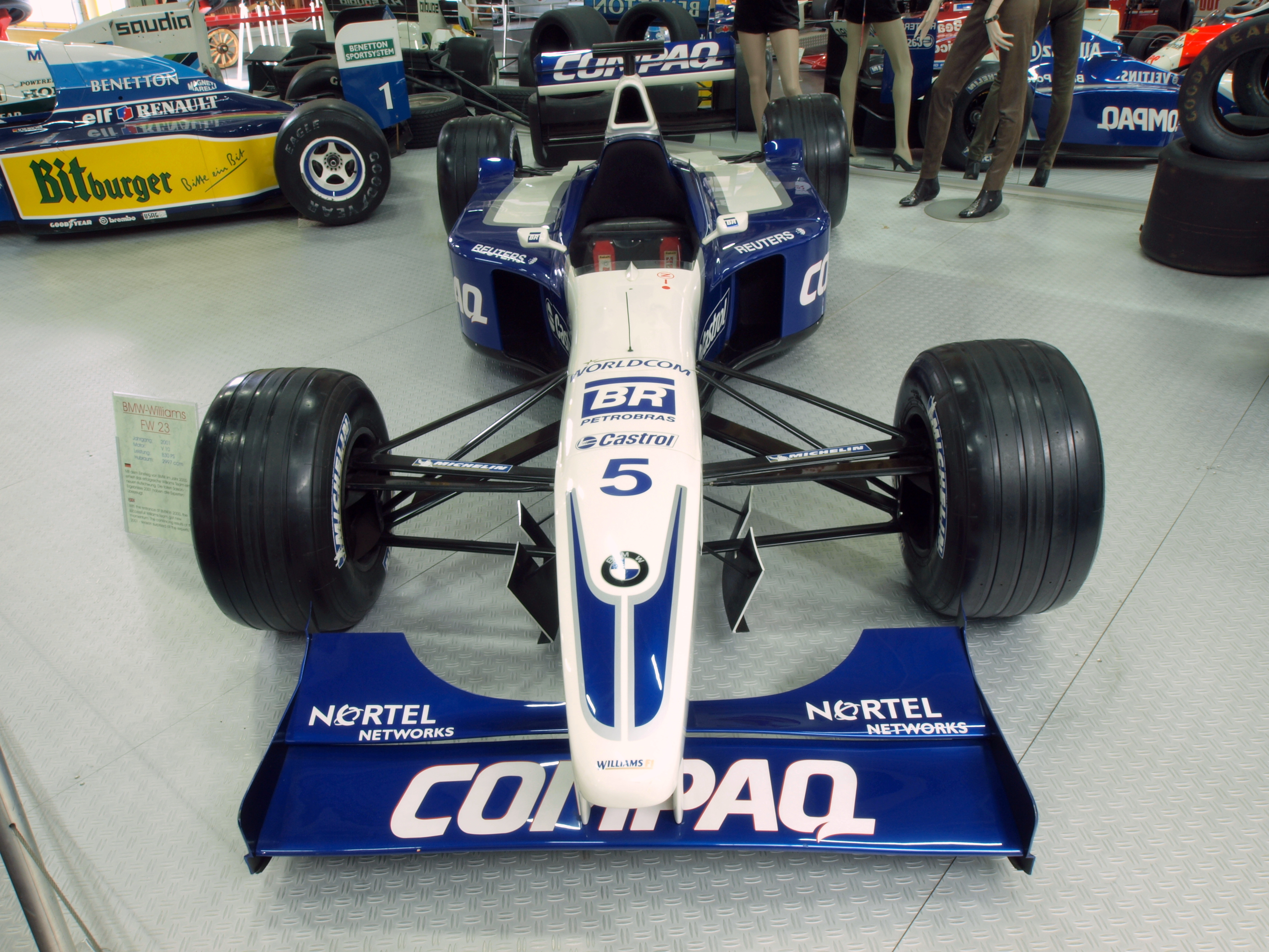 Photographed at the Auto & Technic museum Sinsheim.